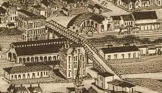 The railroad yard at the north end of Gay Street, as it appeared on an 1886 map of Knoxville, Tennessee, USA. The building labelled "D" was the depot and offices for the East Tennessee, Virginia & Georgia Railroad (later part of the Southern Railway). The truss bridge over the tracks has been replaced by the Gay Street Viaduct. The buildings in the upper right have been replaced by the Southern Railway Terminal. Cropped from map entitled, "Knoxville, Tennessee, County Seat of Knox County."